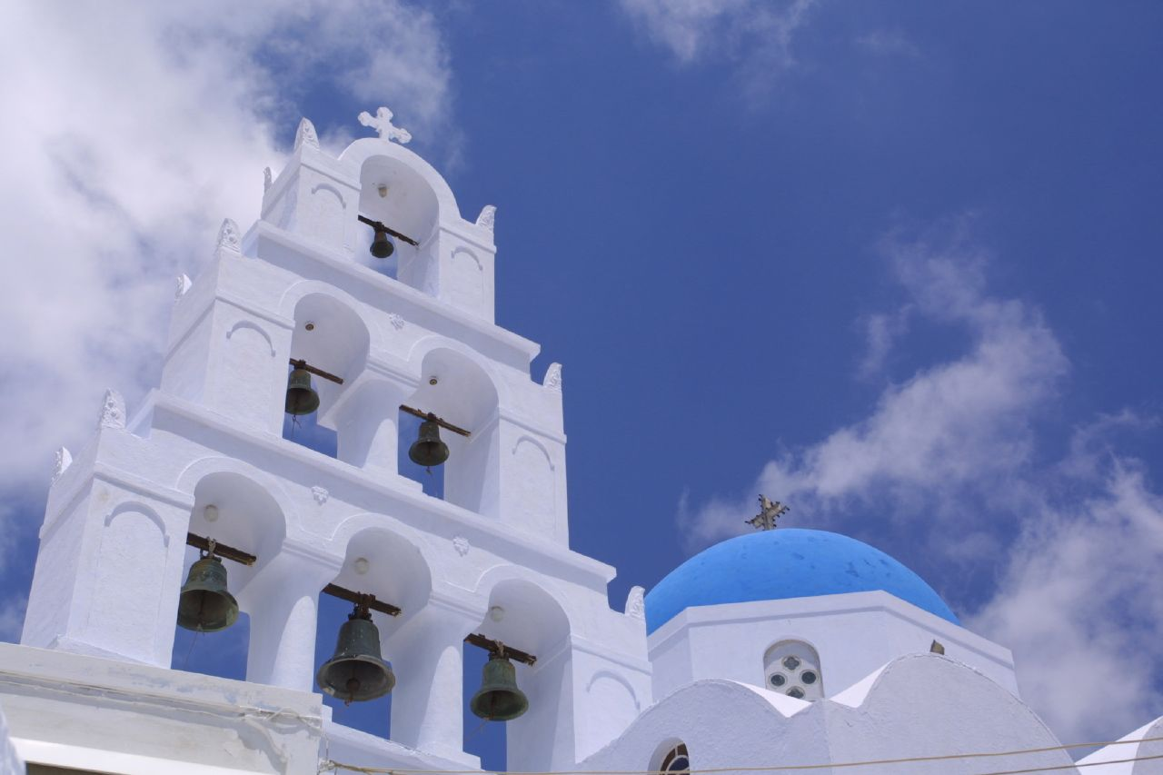 Traditinal Greek Church with blue roof